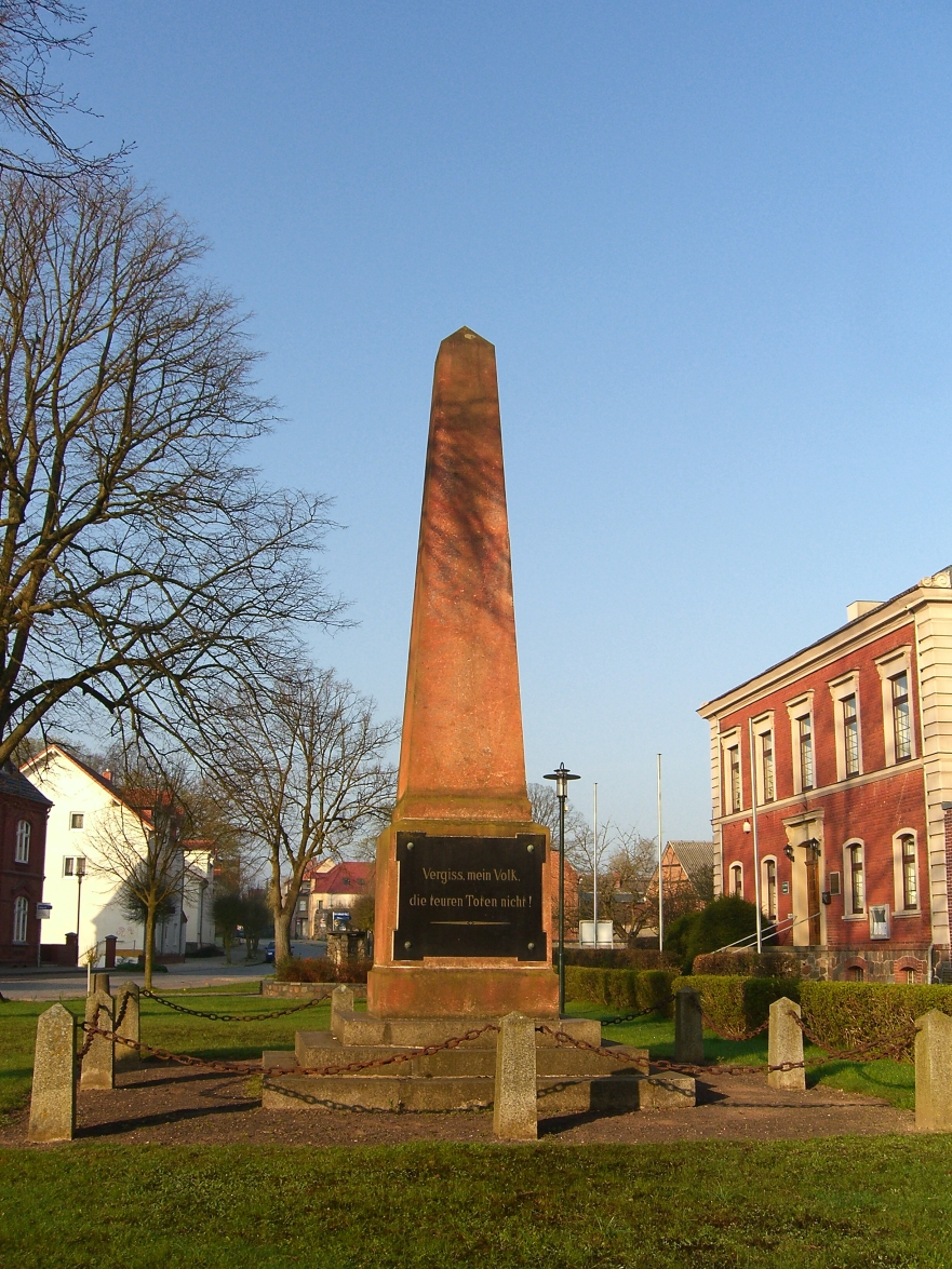 War memorial 1870/71 in Woldegk